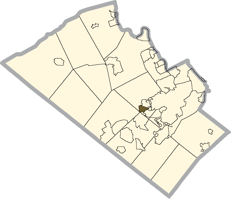 Cetronia shaded on the Lehigh county map.